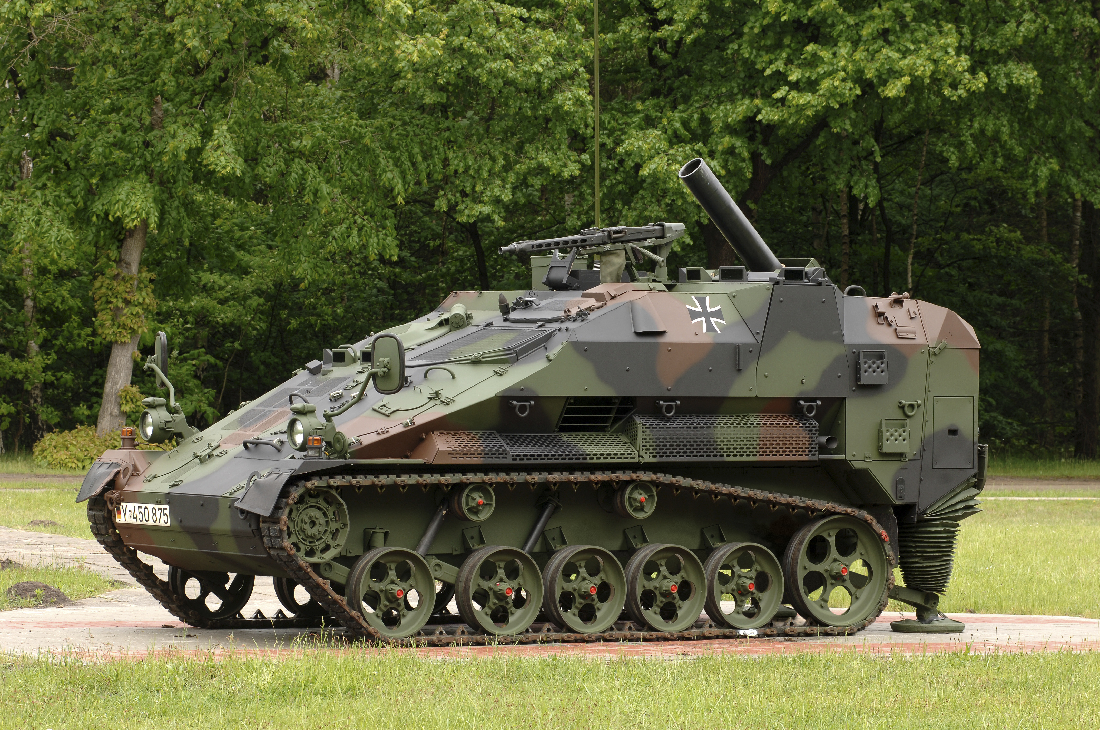 120 mm light Mortar on Wiesel 2 Platform